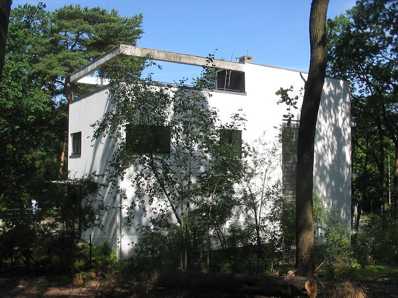 Listed mansion Luckhardt/Anker, built in 1930 by the architects Hans, Wassili Luckhardt and Alfons Anker in the Bauhaus-Style. Am Rupenhorn (street) No. 25 on the high-bank above the Stößensee. The Stößensee is a lake in Berlin-Wilhelmstadt (Borough Spandau) and Berlin-Westend (Borough Charlottenburg-Wilmersdorf), Germany. The lake is a bay of the river Havel.